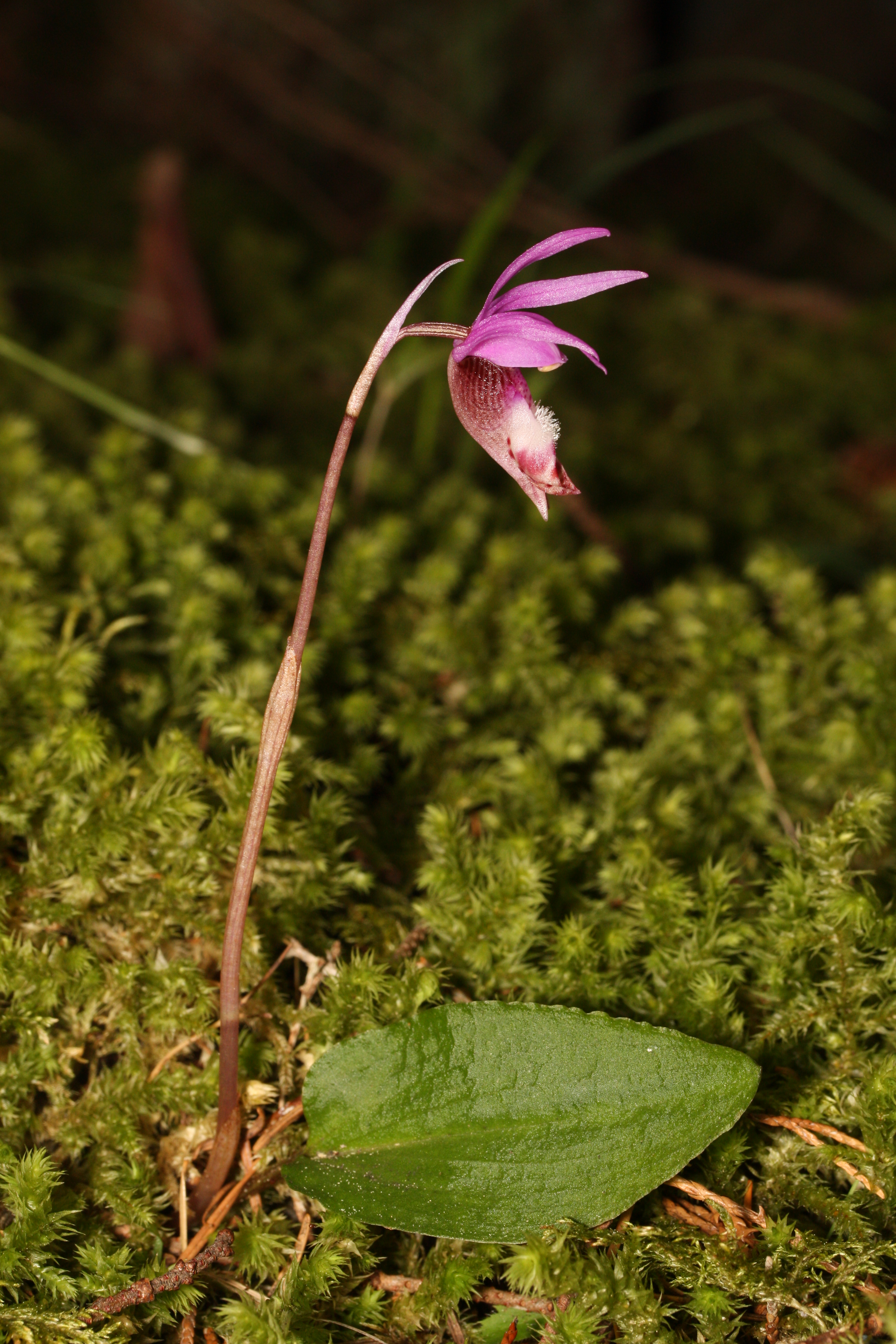 Calypso bulbosa var. occidentalis, the Fairy Slipper. The occidentalis variety is only found in western north America.